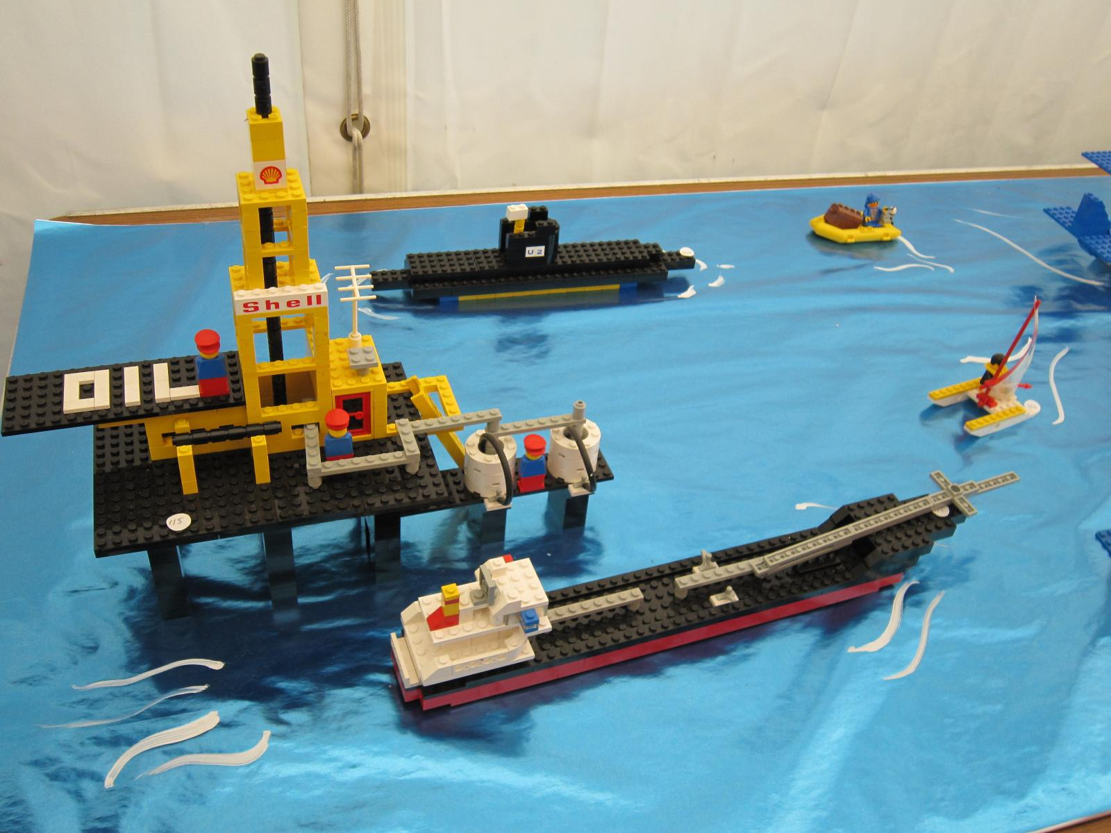 LEGO Offshore Rig with Fuel Tanker - Set 373 (1977) Lego weekend to raise money for the East Anglian Air Ambulance. 6th and 7th August 2011 at Holt Hall (Field Studies Centre) A fun weekend for children and big kid adults, including displays and scenes made from Lego, along with many Lego related games and competitions, a Lego Play Area and bouncy castle. Refreshments were available for the adults while the kids looked at the displays etc. On Sunday 7th a Lego auction was held, for many of the exhibits, some pieces signed by celebrities, including one signed by Stephen Fry, a custom built TV studio. Members of the public were asked to make a donation and sign Lego bricks which were made into a tower, if it’s tall enough a picture will be sent to Guinness in a bid to set the world record for the largest tower of blocks signed by different people. The organisers will have to wait a few weeks for the record attempt to be verified. An estimated 4,000 visited the event - raising upward of £10,000 for the East Anglian Air Ambulance.